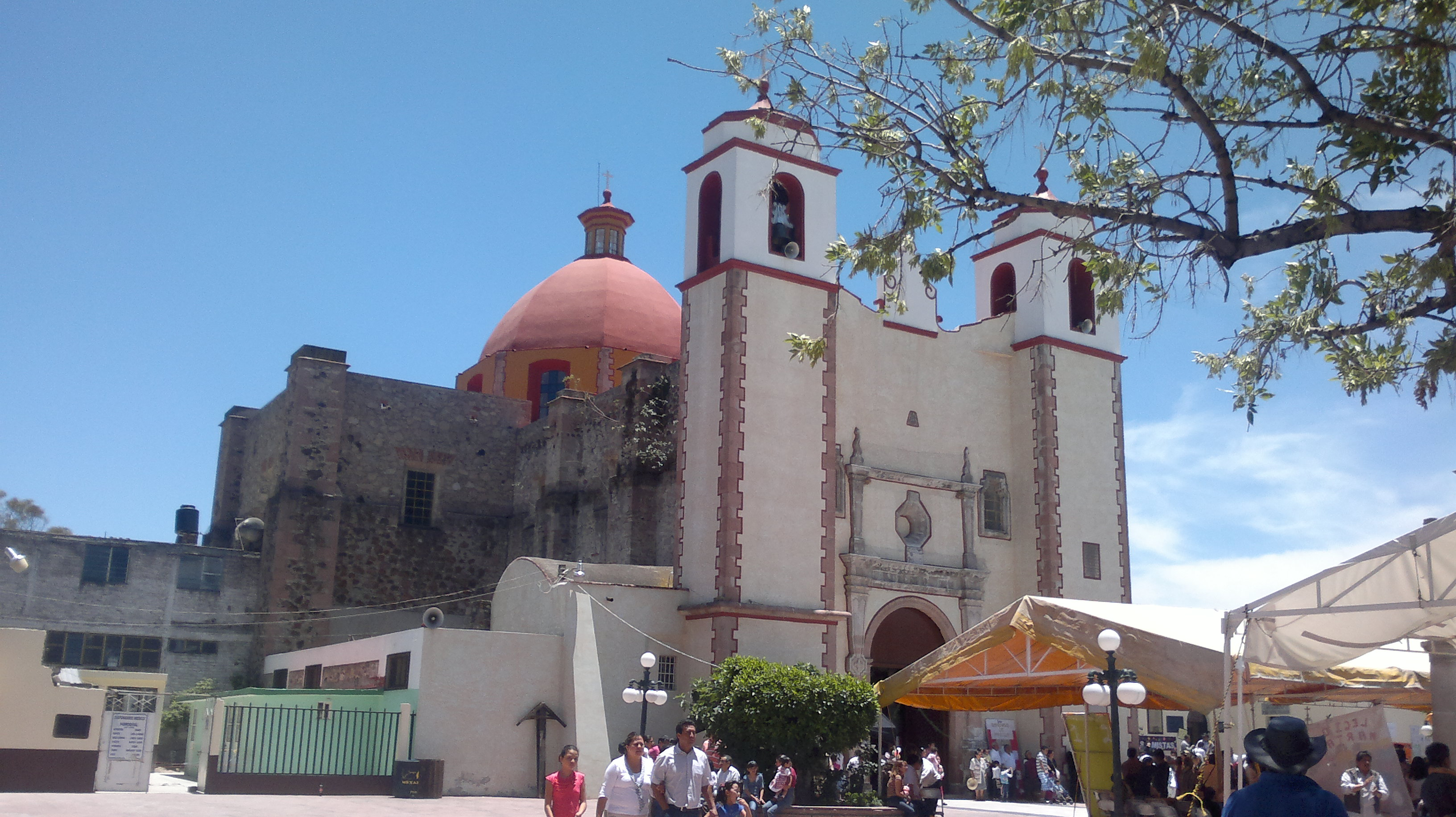 San Pedro y San Pablo Apostol — en Huehuetoca, del estado de México.